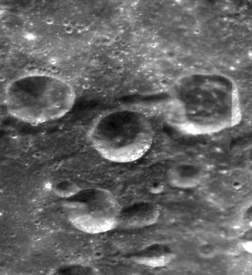 D. Brown crater is slightly above the center, left top - Ramon crater, right top - McCool crater, below center slightly on the left side - Chawla crater